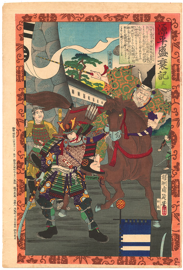 Gempei Seisuiki – Chronicles of the Genji and the Heike, # 5 in the series depicting Miura Daisuke Yoshiaki (1093-1181) on horseback outside Kinugasa Castle